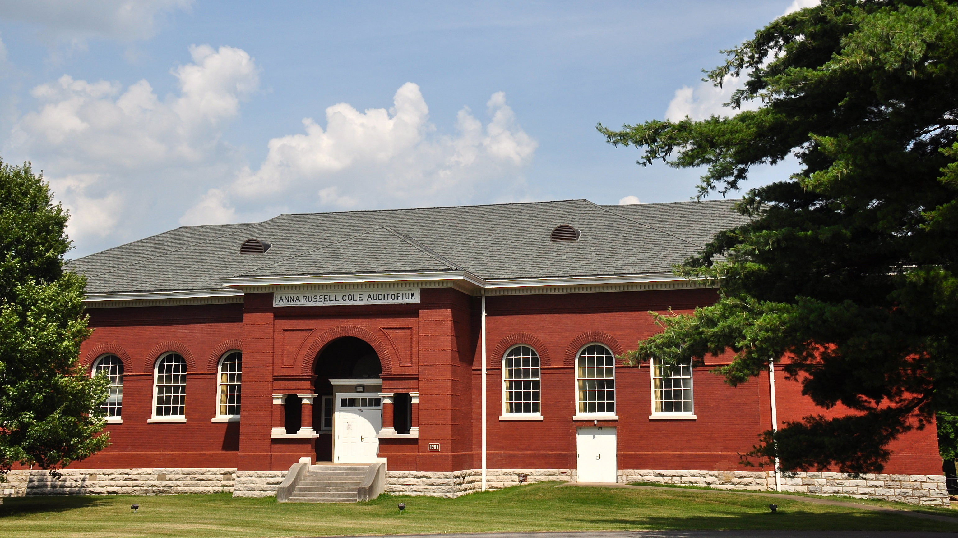 Anna Russell Cole Auditorium, Tennessee Preparatory School campus Nashville